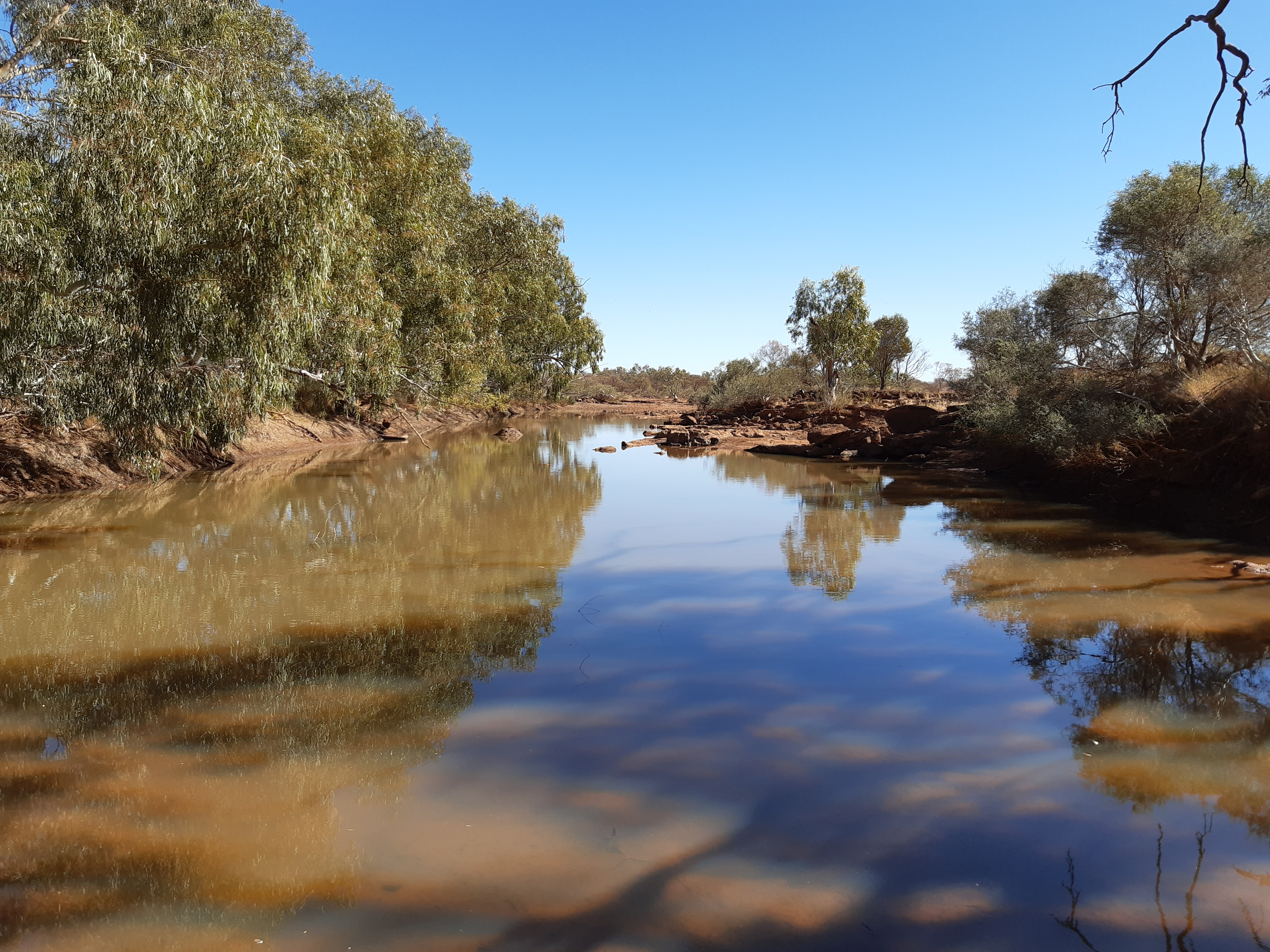 Landor River, Upper Gascoyne, Western Australia, just south of the Dalgety Downs-Landor Road crossing.